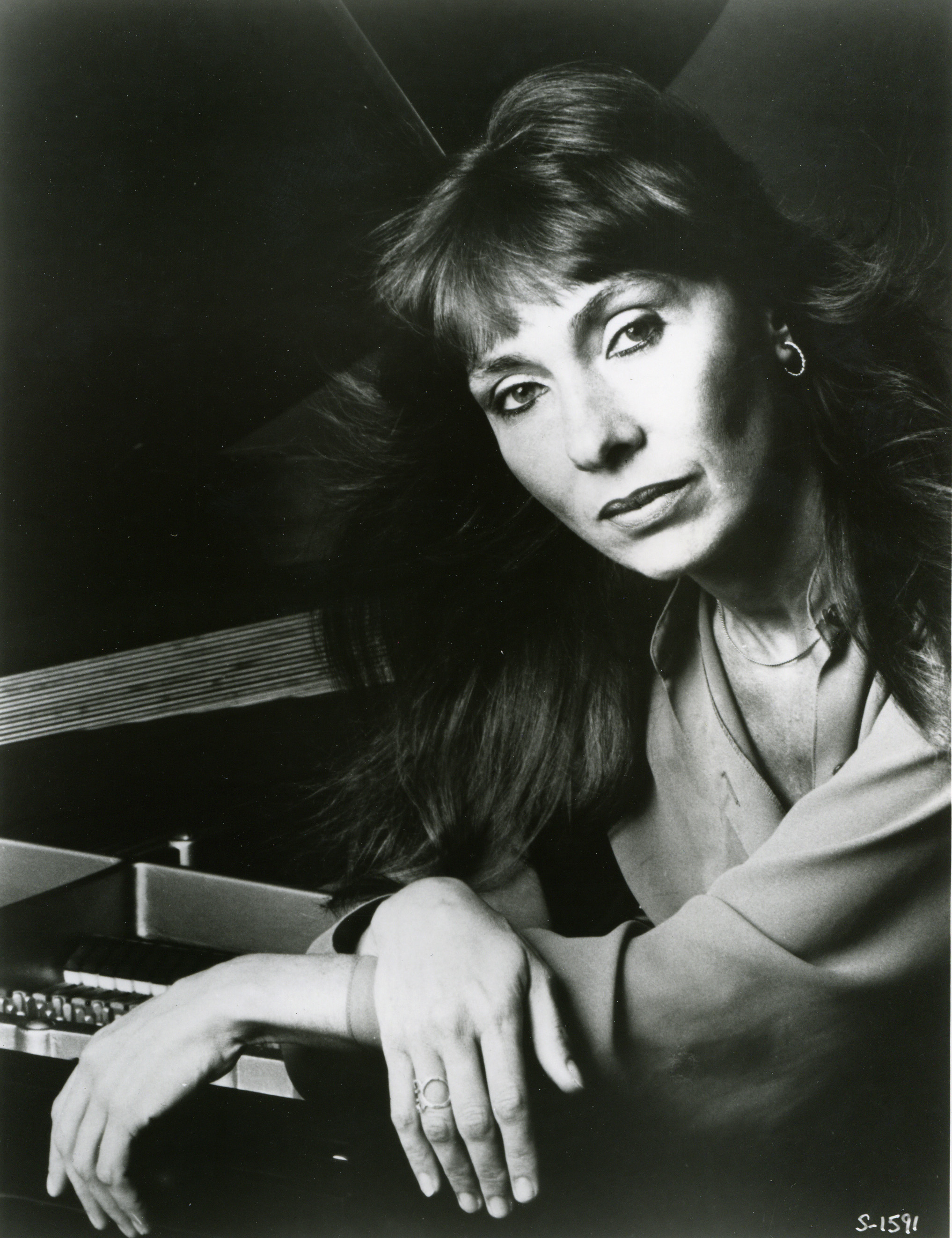 Ruth Laredo